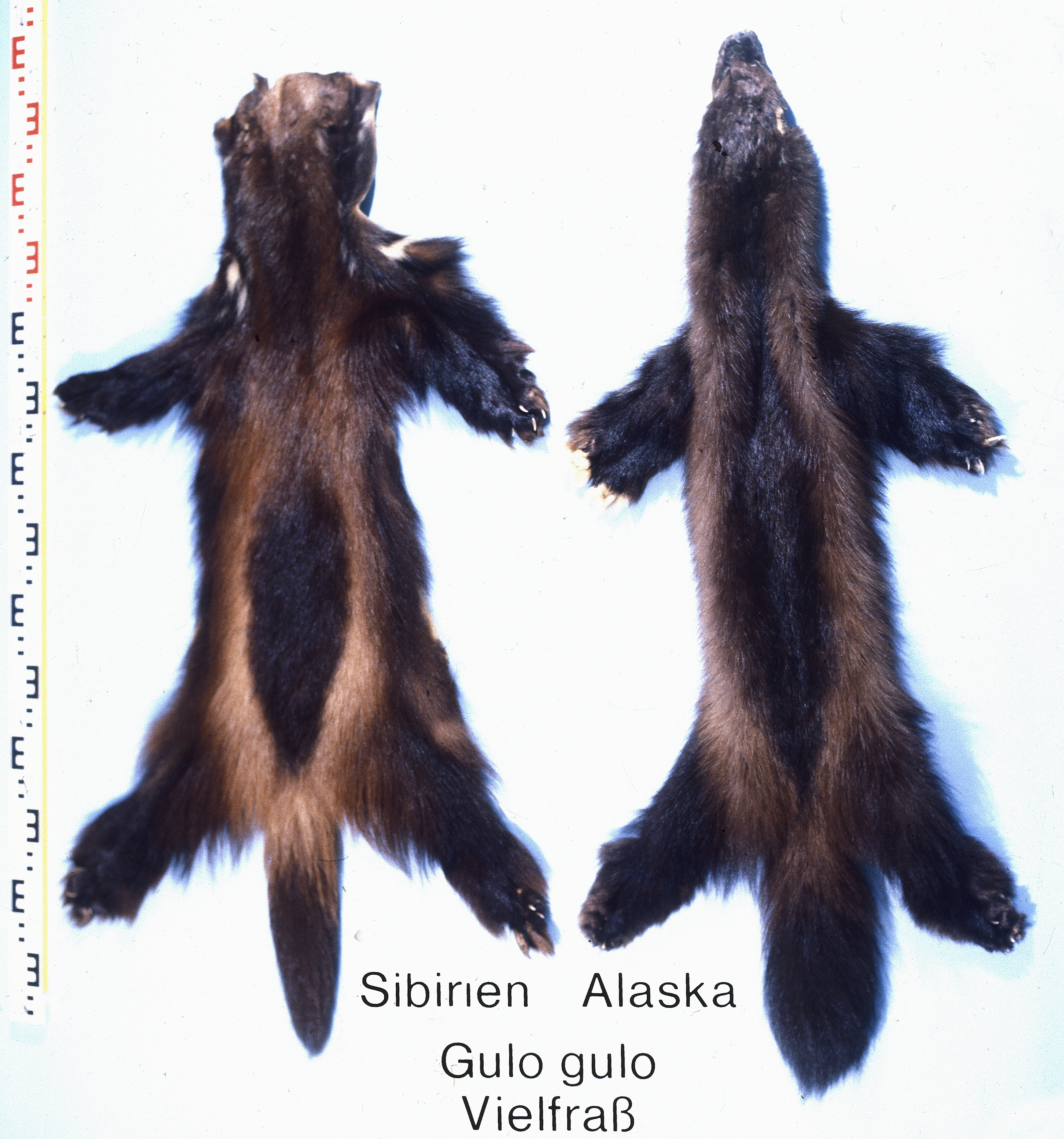 Wolverine, Glutton fur skins (Gulo gulo), left Siberia, right Alaska. Fur skin collection, Bundes-Pelzfachschule, Frankfurt/Main, Germany